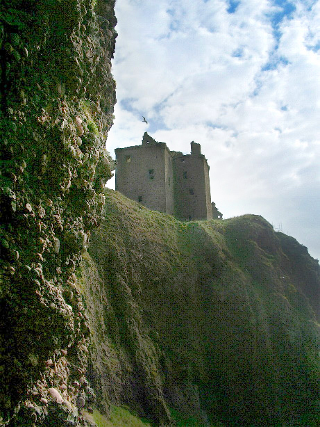 Dunnottar Castle, Stonehaven, Scotland, viewed from below. Brightened for clarity